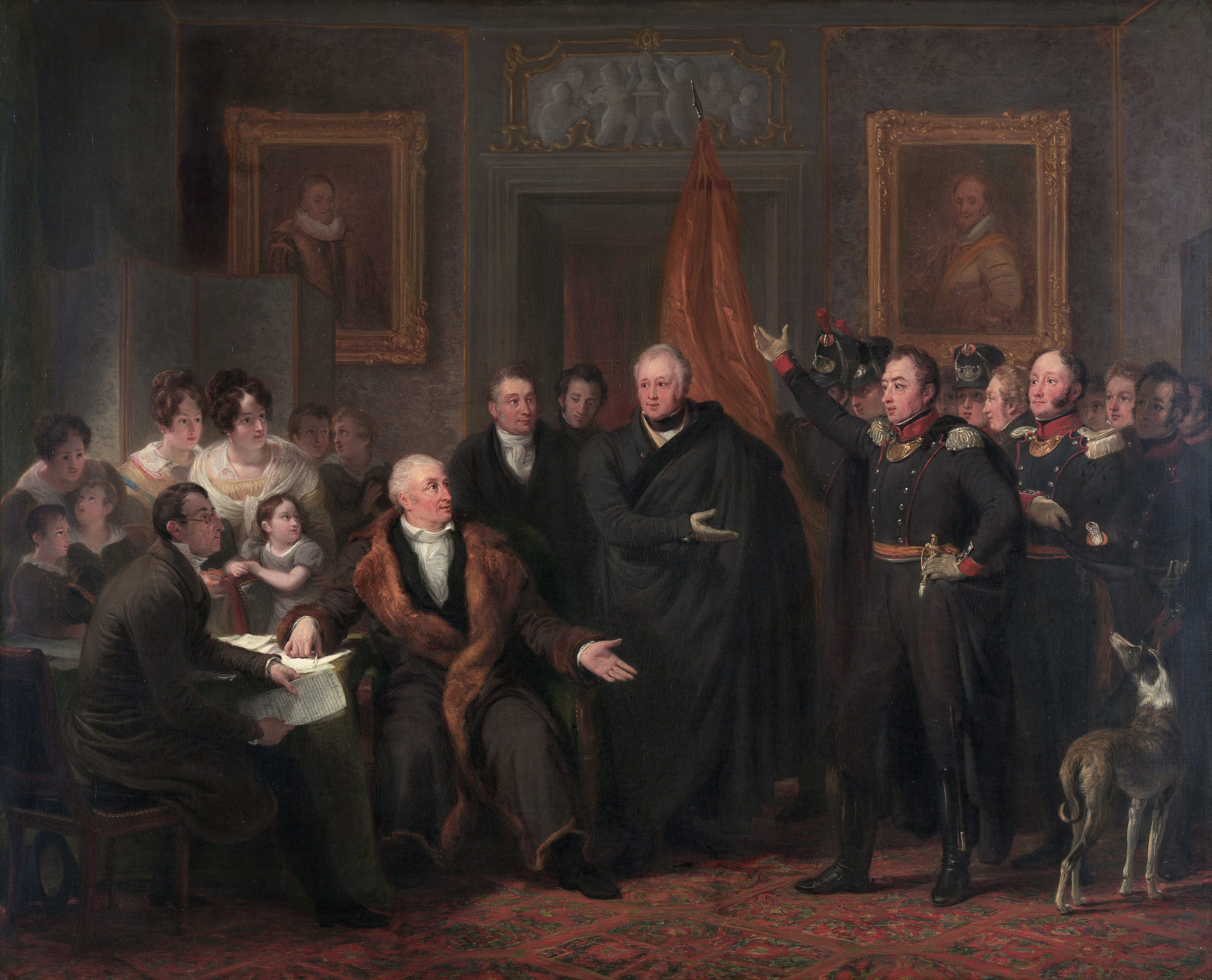 "Aanvaarding Hoogbewind" - Sunday 21 November 1813 (The Triumvirate Assuming Power on behalf of the Prince of Orange)